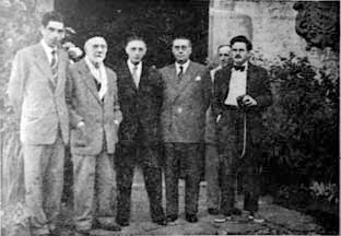 (from left to right) Koldo Mitxelena, Pío Baroja, Angel Irigaray, Antonio Arrue and Julio Caro Baroja in front of Itzea, the Barojas' house in Vera de Bidasoa